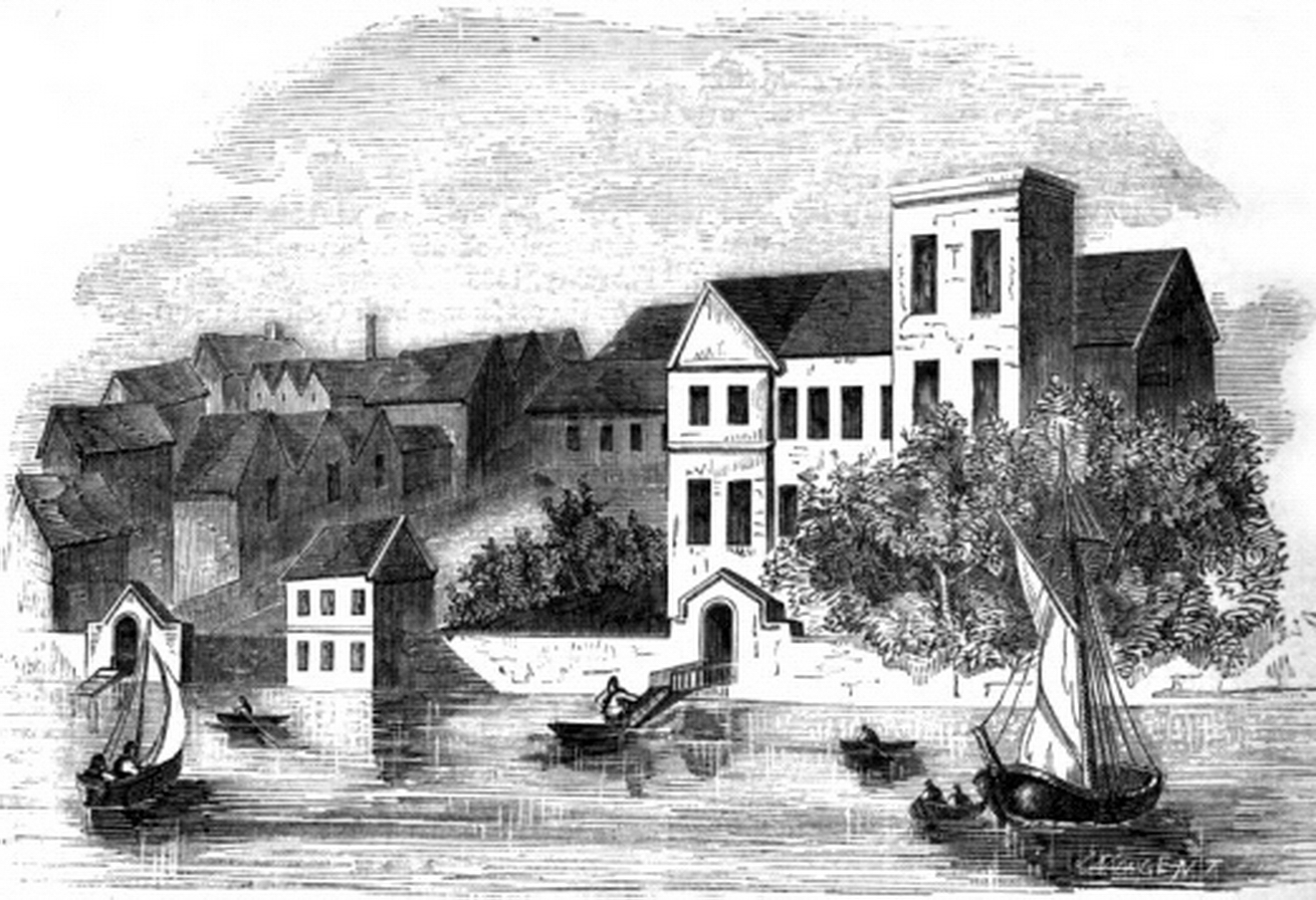 The title is the same as the image caption above & in "Cassell's Illustrated History of England, Volume 2". The number shown is the page number. Follow the image link to the full book vol.2.